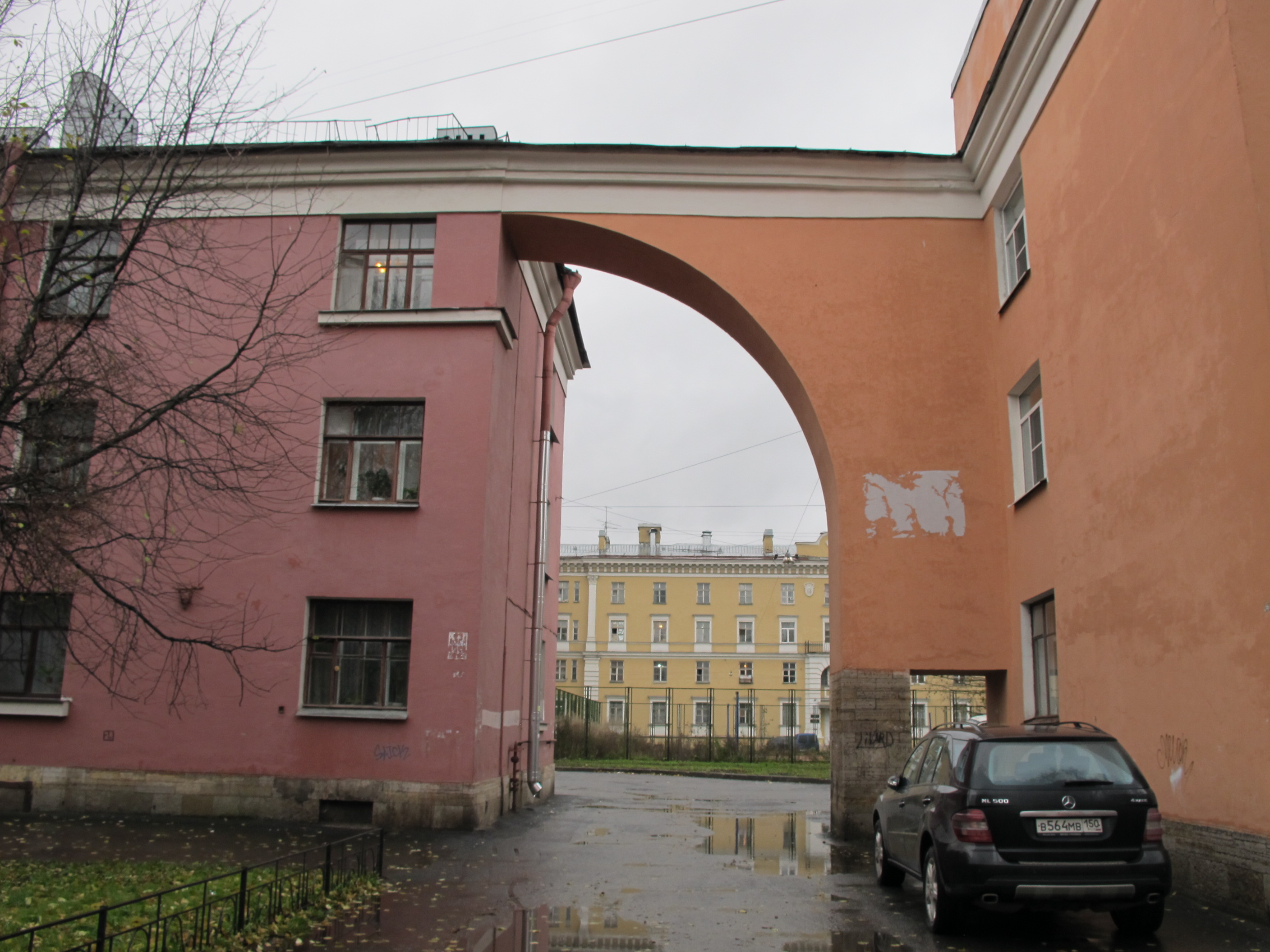 Traktornaya Street in Saint Petersburg